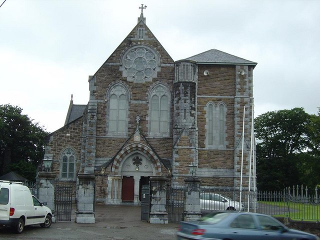 St James the Greater Church Killorglin, Roman Catholic church to the North East of the town